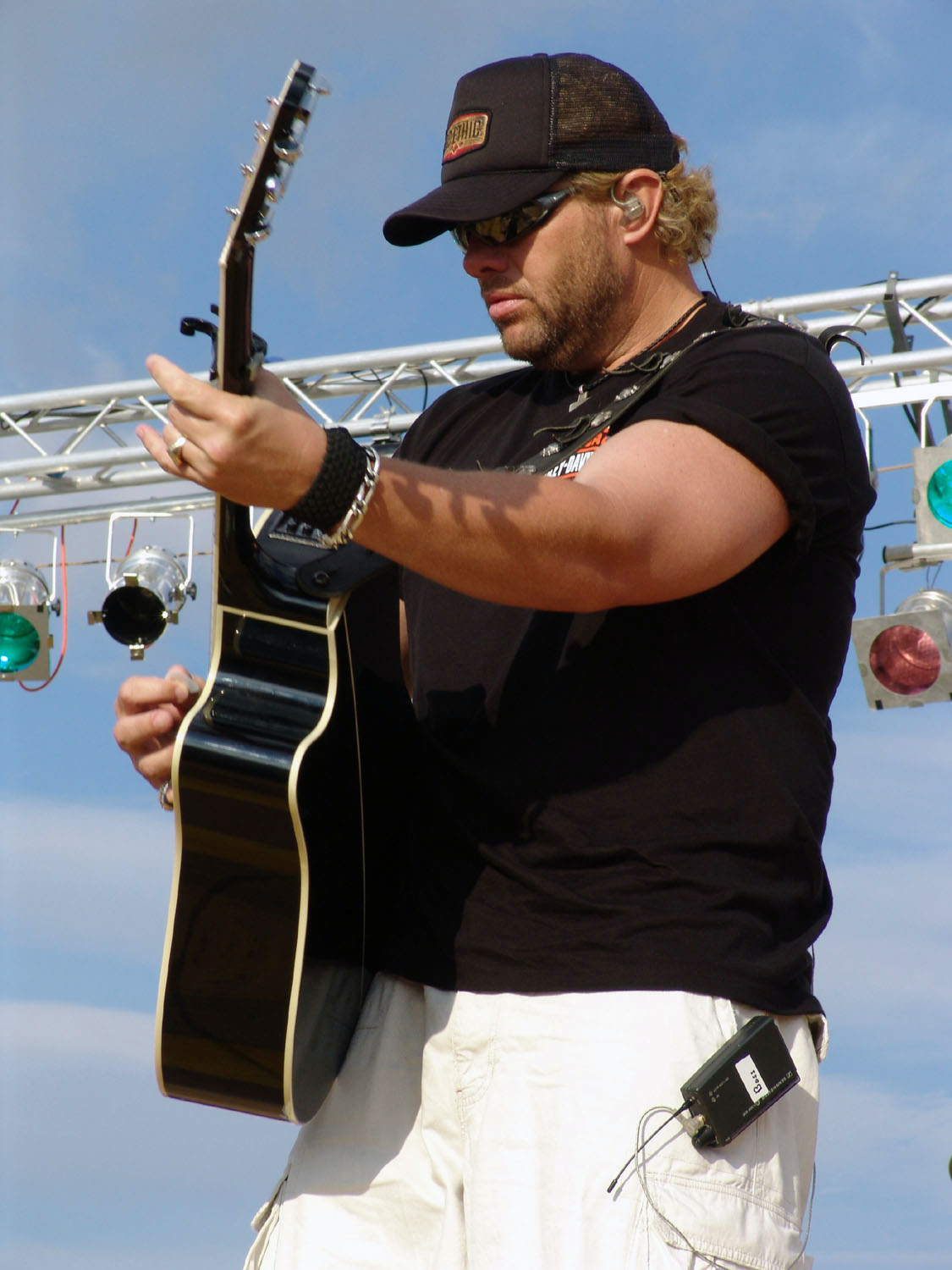 040601-N-8861F-003 Naval Support Activity Naples, Italy (Jun. 1, 2004) - Country singer Toby Keith sings at a recent United Service Organization (USO) sponsored concert held at Naval Support Activity, Naples, support site in Gricignano. Keith, joined by rock legend Ted Nugent will also be traveling to Germany, Kosovo and the Persian Gulf during the tour. U.S. Navy photo by Photographer's Mate 2nd Class Lenny Francioni